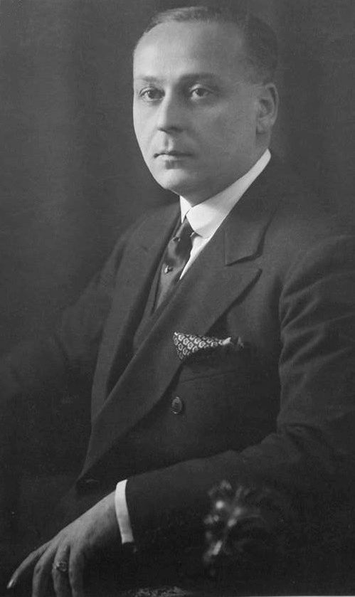 Gr.Uff.Amedeo Natoli, 1918, Paris, France